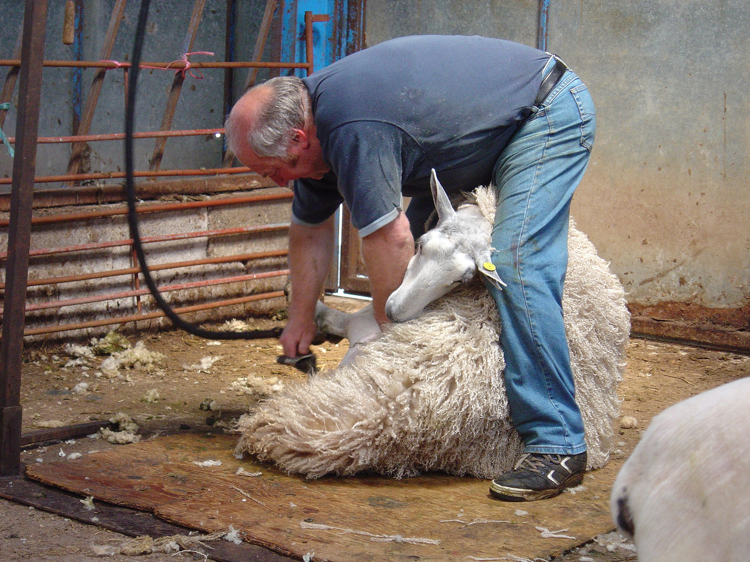 To keep the fleece clean, the shearer stands on a board and won't move off it. The sheep are brought to him.